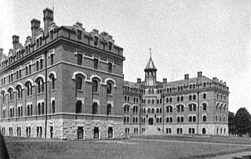 Library of Congress Photo, Kissam Hall, Vanderbilt University, Nashville, Tenn.. CREATED/PUBLISHED [ca. 1900] NOTES Date based on Detroit, Catalogue J Supplement (1901-1906). "534" on negative. Detroit Publishing Co. no. 013562.